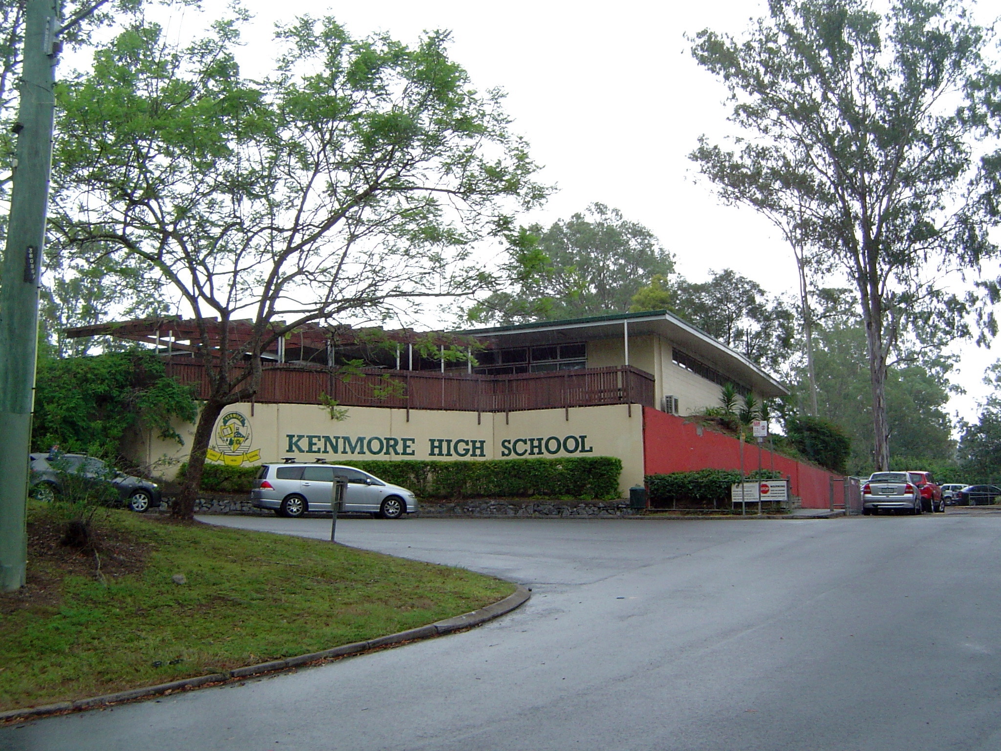 Photo of Kenmore State High School at Kenmore, Queensland, Australia.